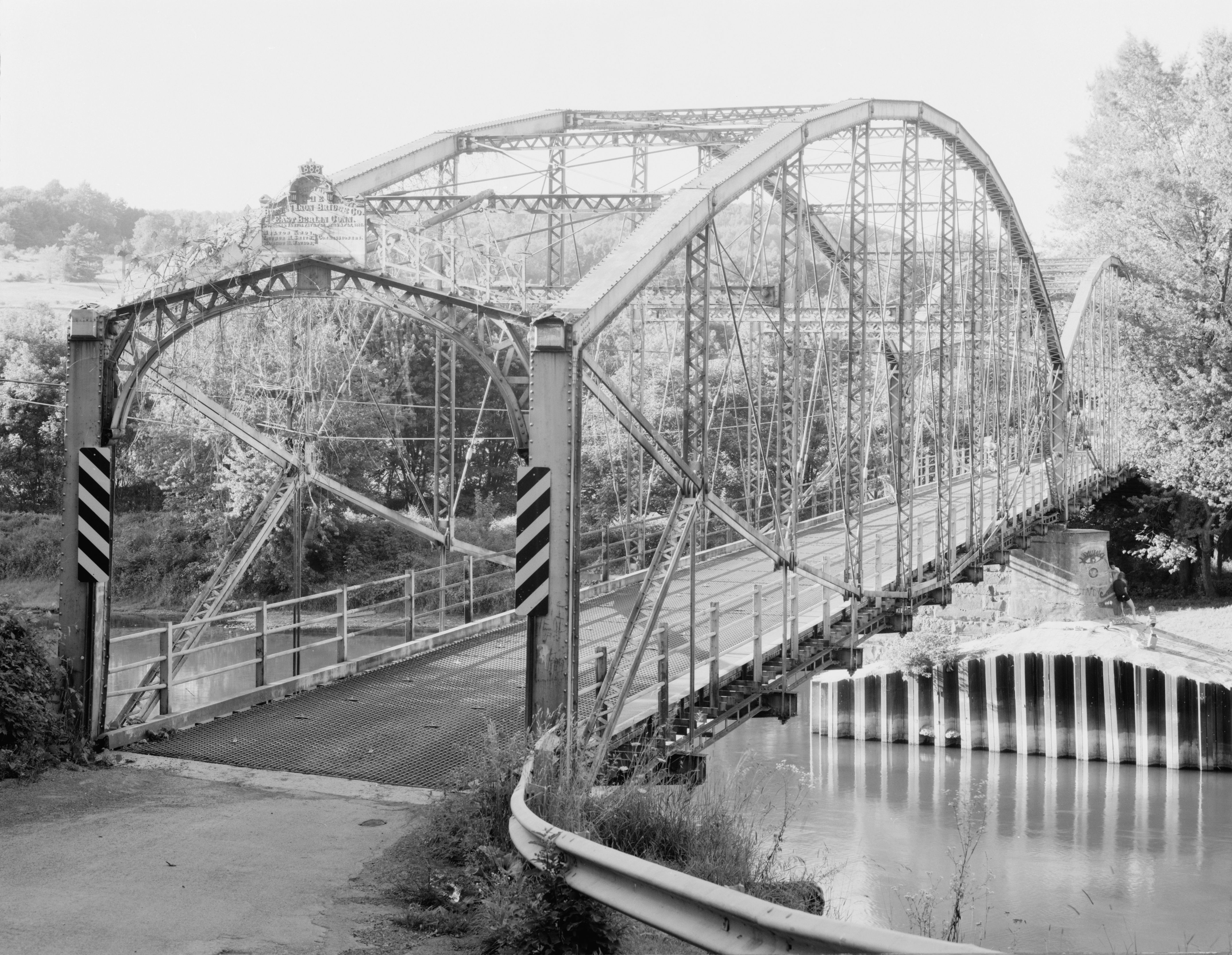 Ouaquaga Bridge, Dutchtown Road, spanning Susquehanna River in Ouaquaga, Broome County, New York.